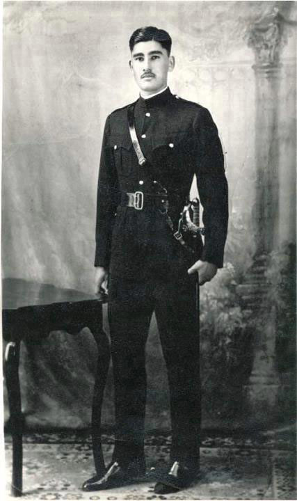 General Muhammad Musa Khan Hazara, circa 1935 in a British Uniform.